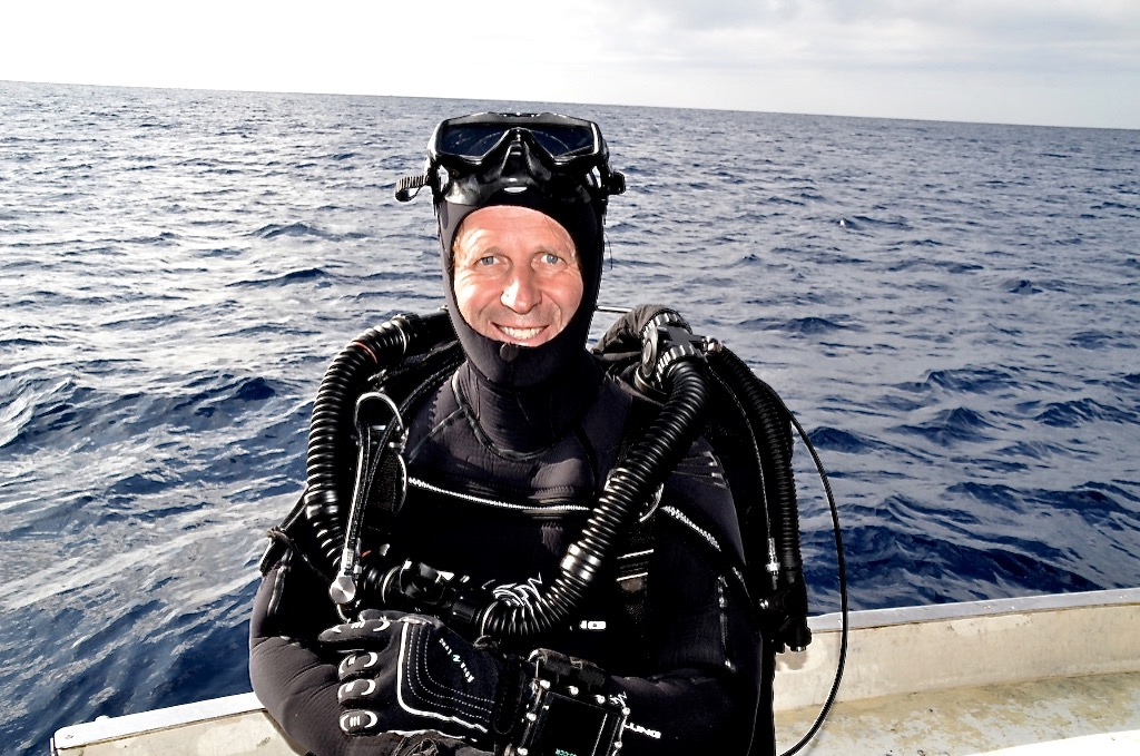 René Heuzey is an underwater cameraman based in France. He owns his production company, Label Bleu Production.